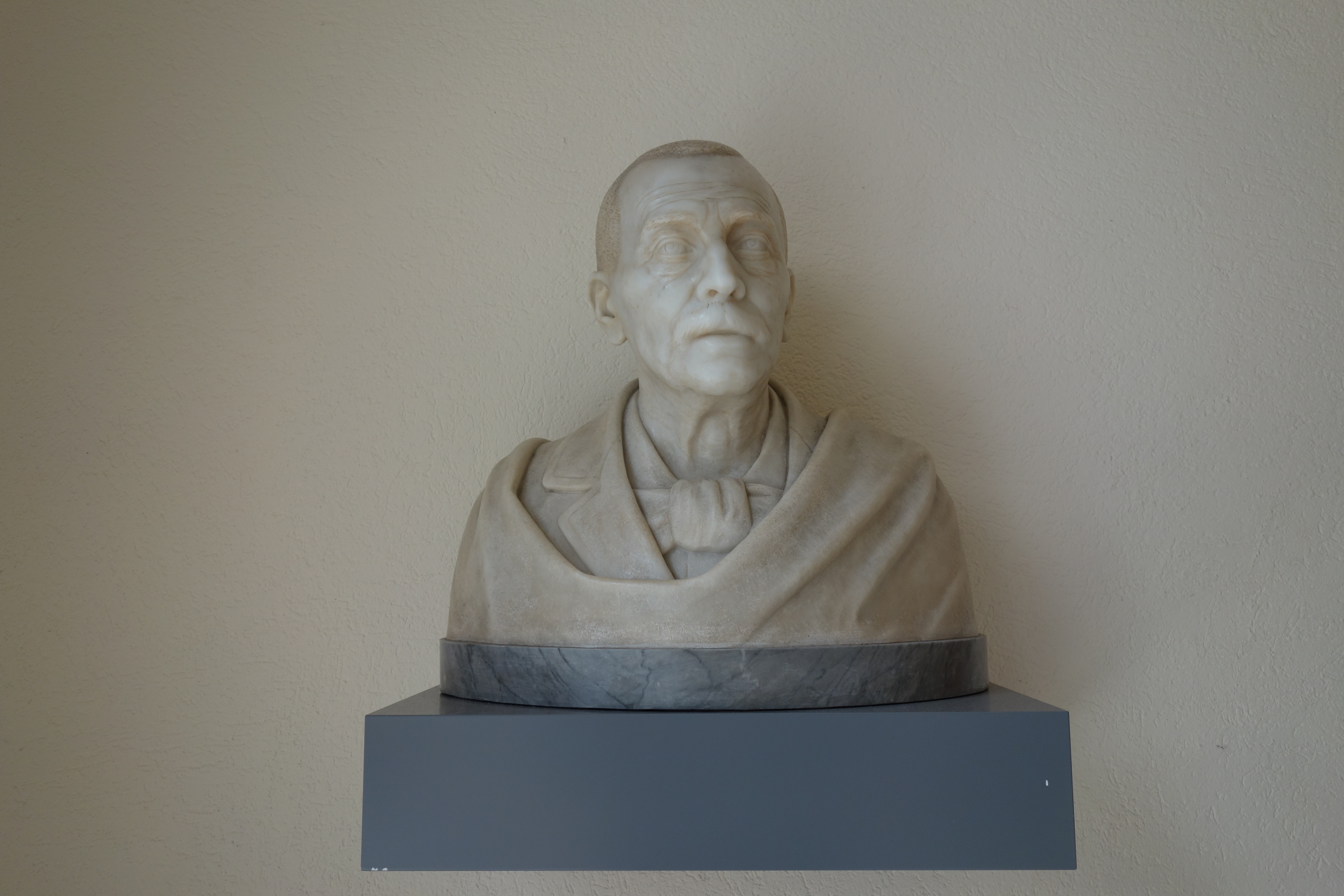 Bust of Jakob Burckhardt by Arthur J.W. Volkmann (Rome, 1899), at Kollegienhaus (University of Basel)